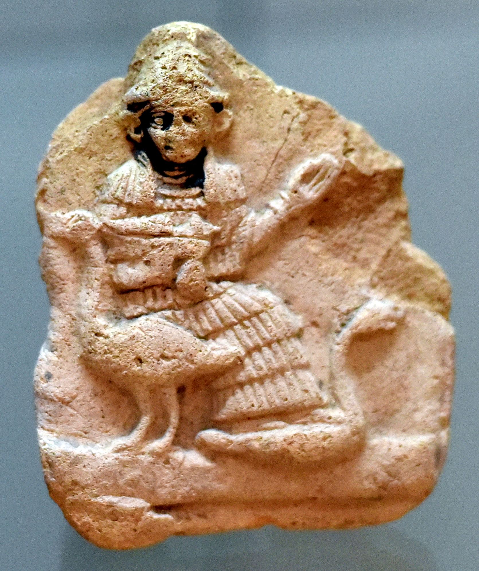 Terracotta plaque showing seated goddess Nanshe and geese. From southern Iraq. Old Babylonian period, 2003-1595 BCE. On display at the Iraq Museum in Baghdad, Iraq.